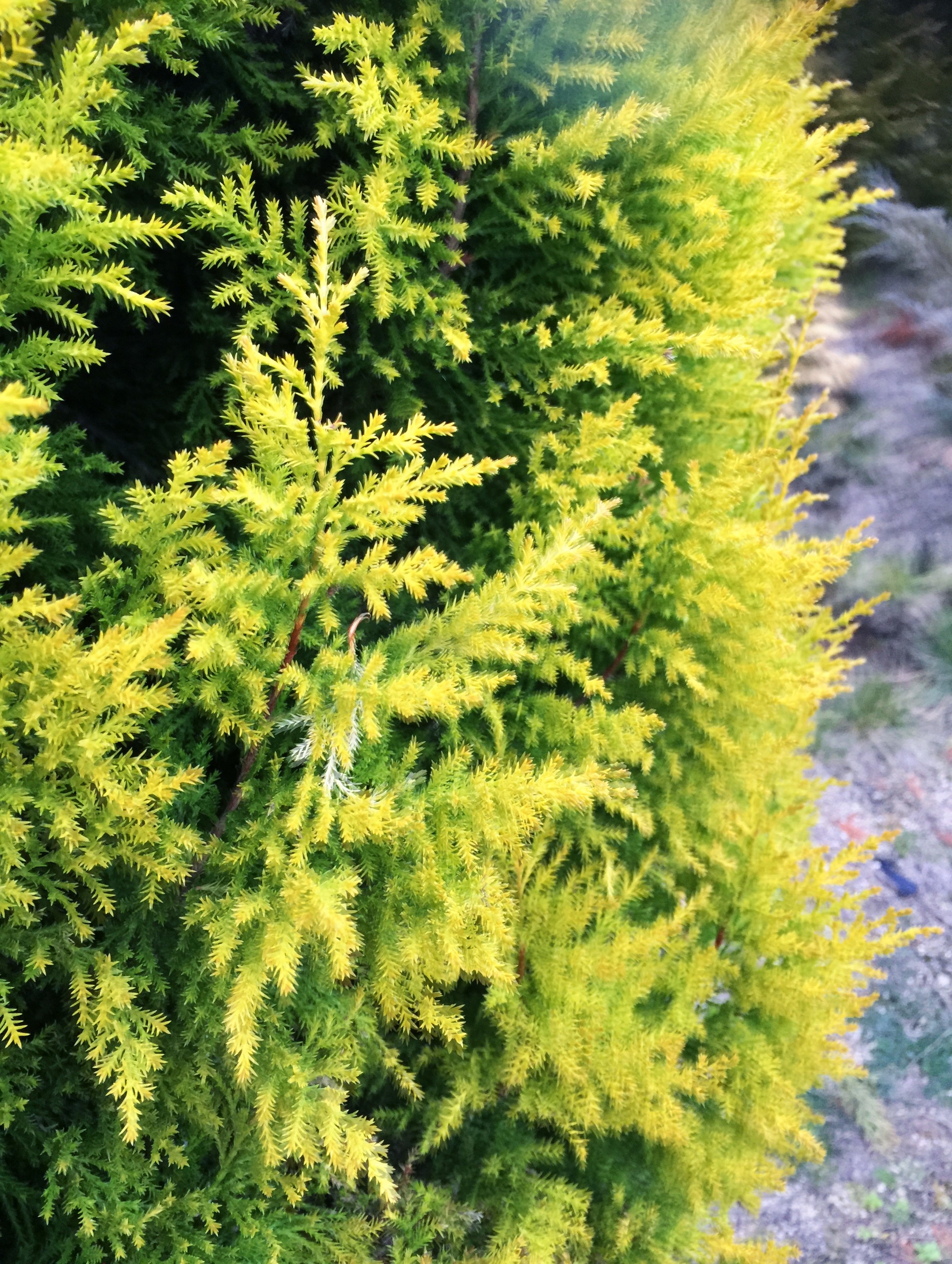 Gold Crest-leaves Cupressus macrocarpa 'Gold Crest' / Monterey cypress